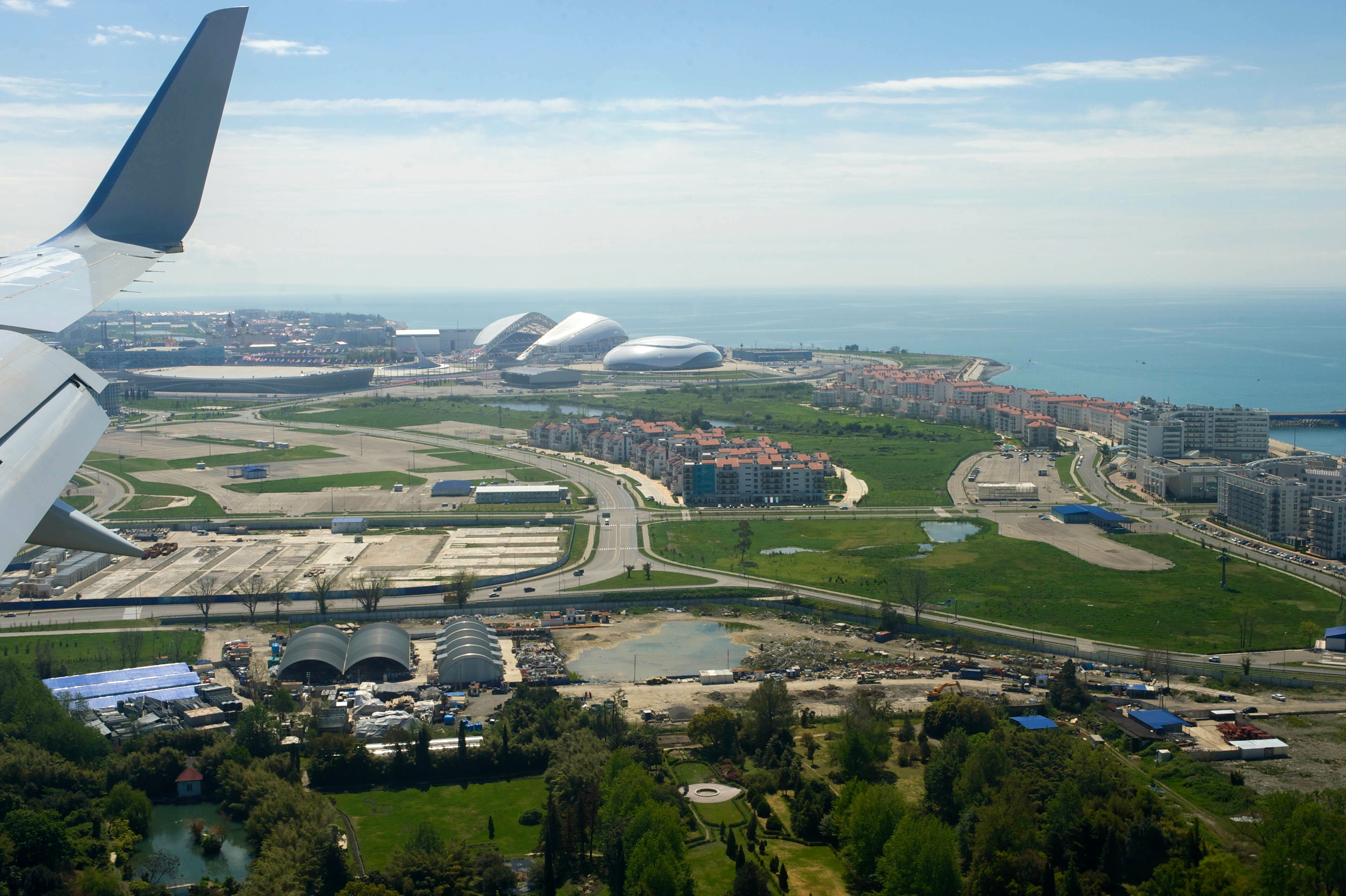 The plane carrying U.S. Secretary of State John Kerry passes the Black Sea coastline and Olympic Park as it arrives in Sochi, Russia, on May 11, 2015, so the Secretary can hold meetings with Russian President Vladimir Putin and Foreign Minister Sergey Lavrov. [State Department Photo/Public Domain]